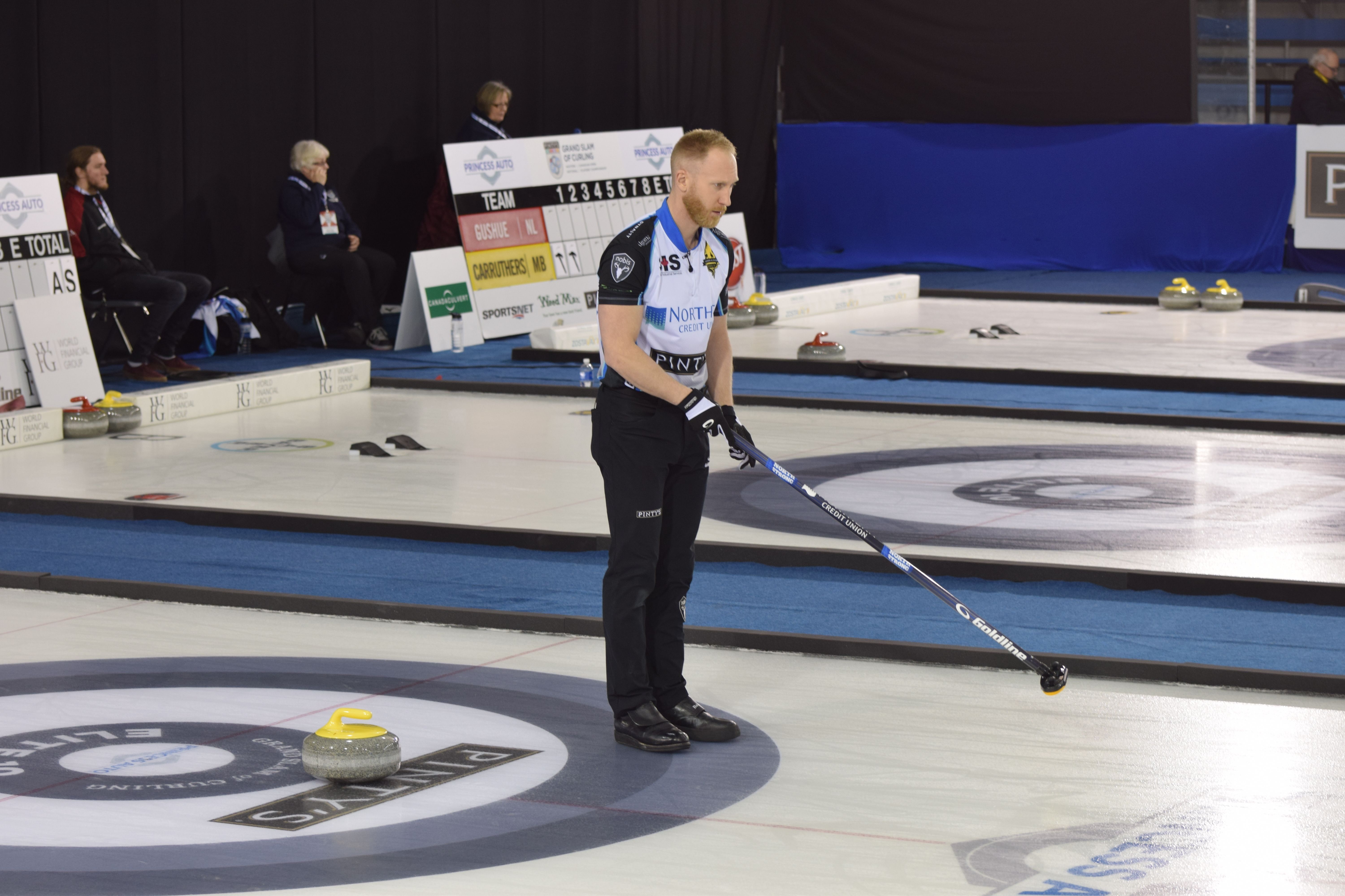 Brad Jacobs at the 2018 Elite 10 Grand Slam of Curling even in Winnipeg, Manitoba.